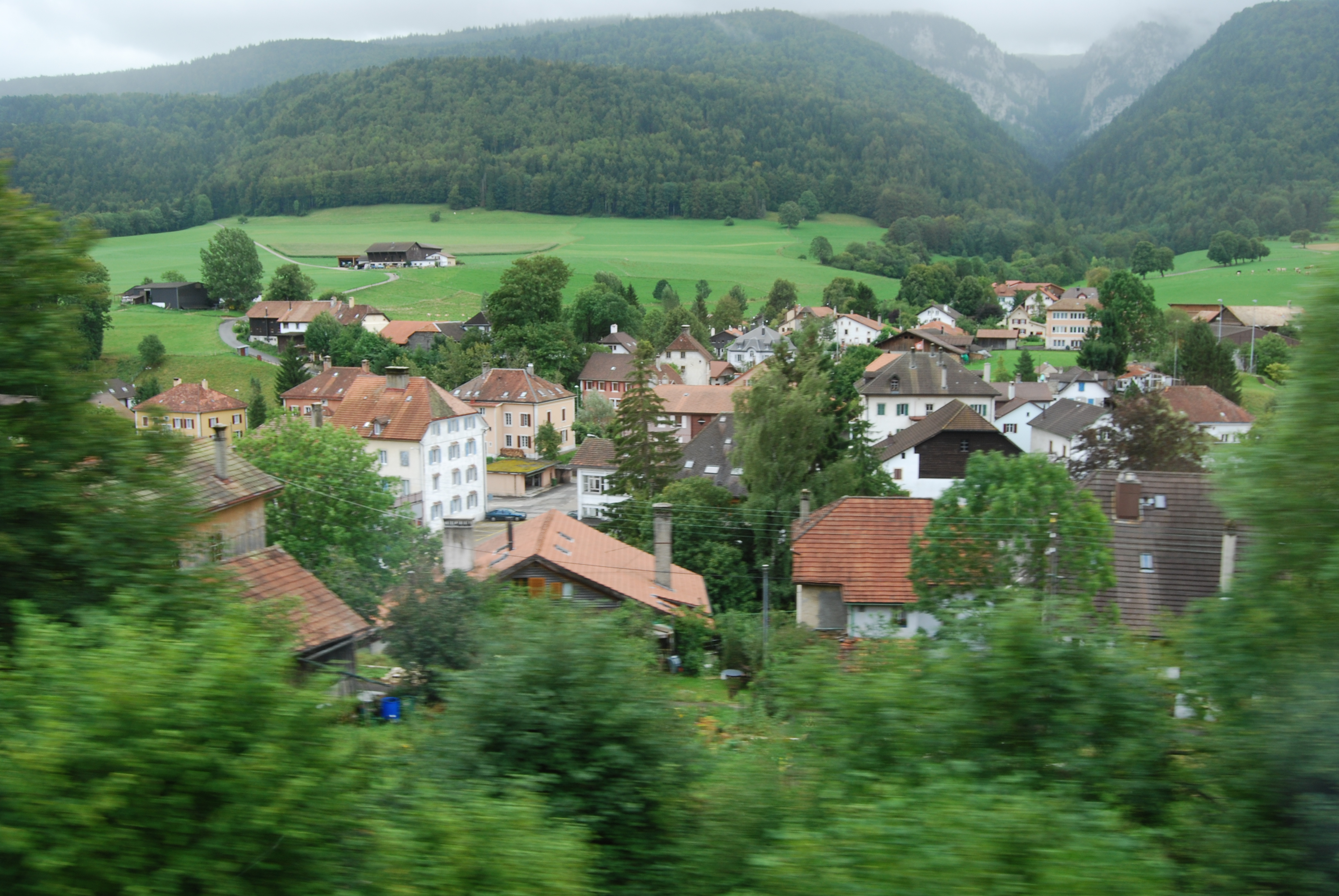 Villeret, canton of Bern, SwitzerlandEsperanto: Villeret, Kantono Berno, Svislando